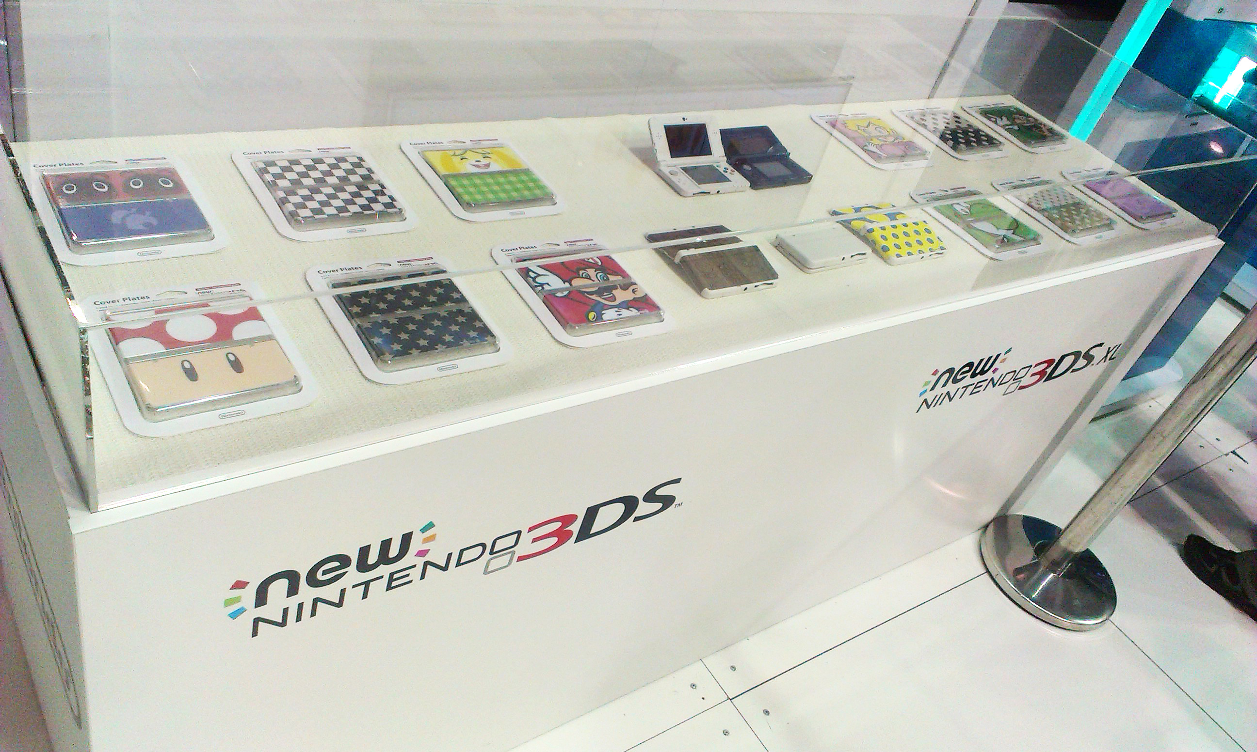 A display case featuring the New Nintendo 3DS and cover plates from PAX Australia 2014. Note that an original Nintendo 3DS is displayed alongside the central New Nintendo 3DS.